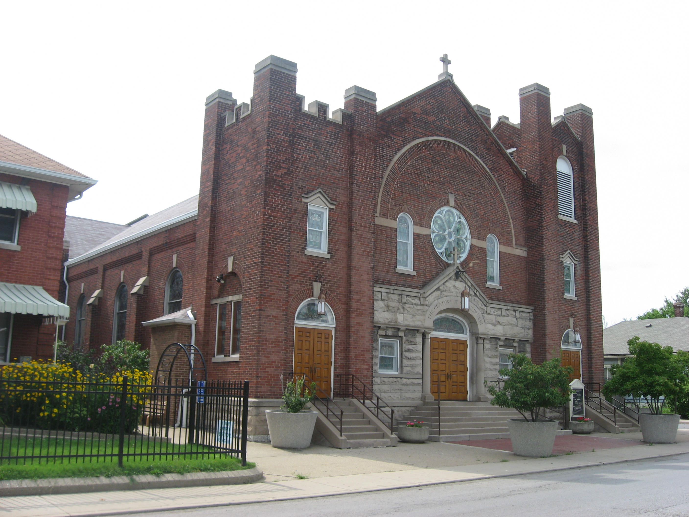 Front of St. Philip Neri Catholic Church, located at 550 N. Rural Street in Indianapolis, Indiana, United States. Built in 1909, it and four related buildings compose a historic district that is listed on the National Register of Historic Places, the St. Philip Neri Parish Historic District.